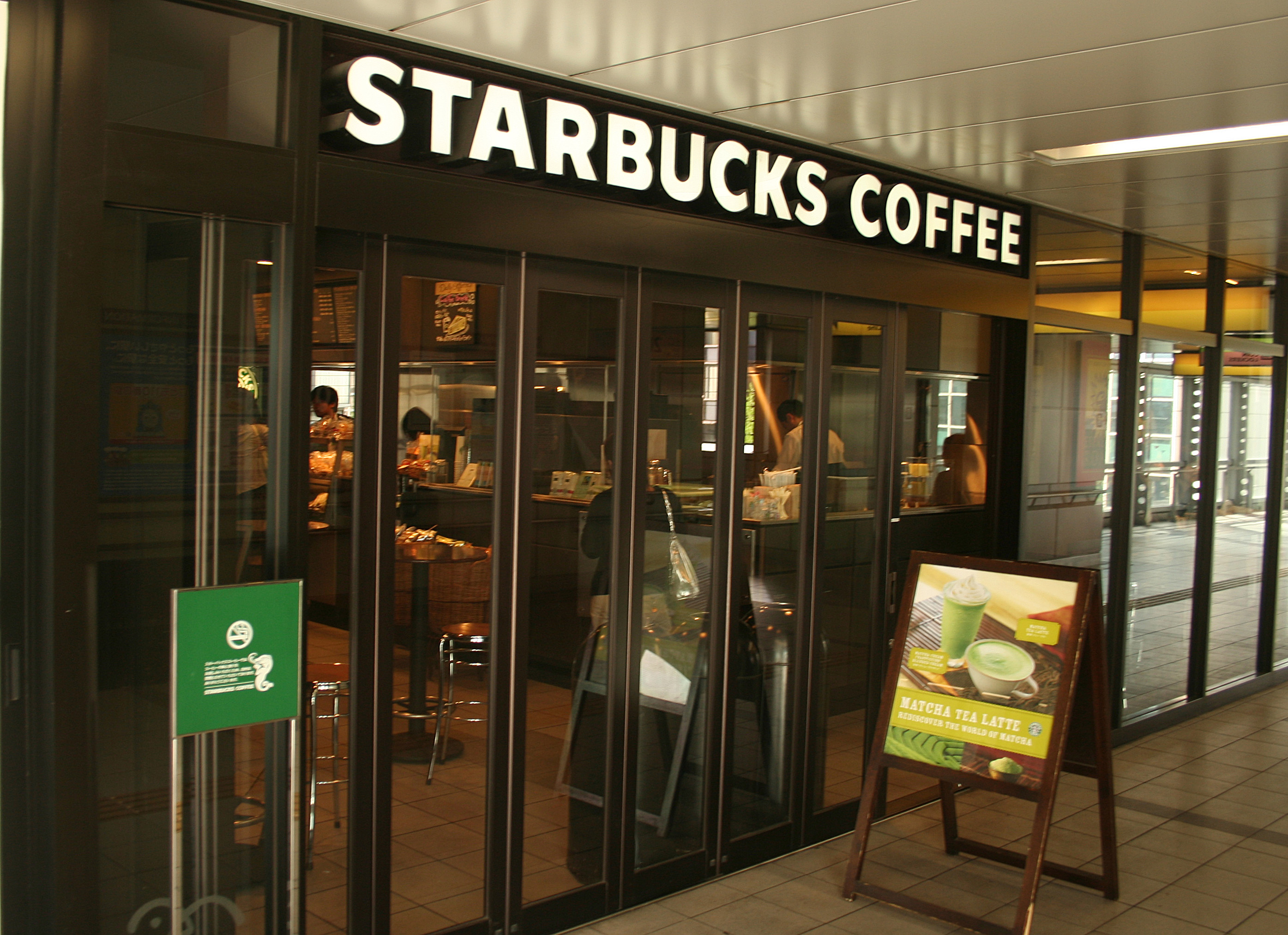 Starbucks at the Shinbashi Yurikamome train station in Tōkyō, Japan